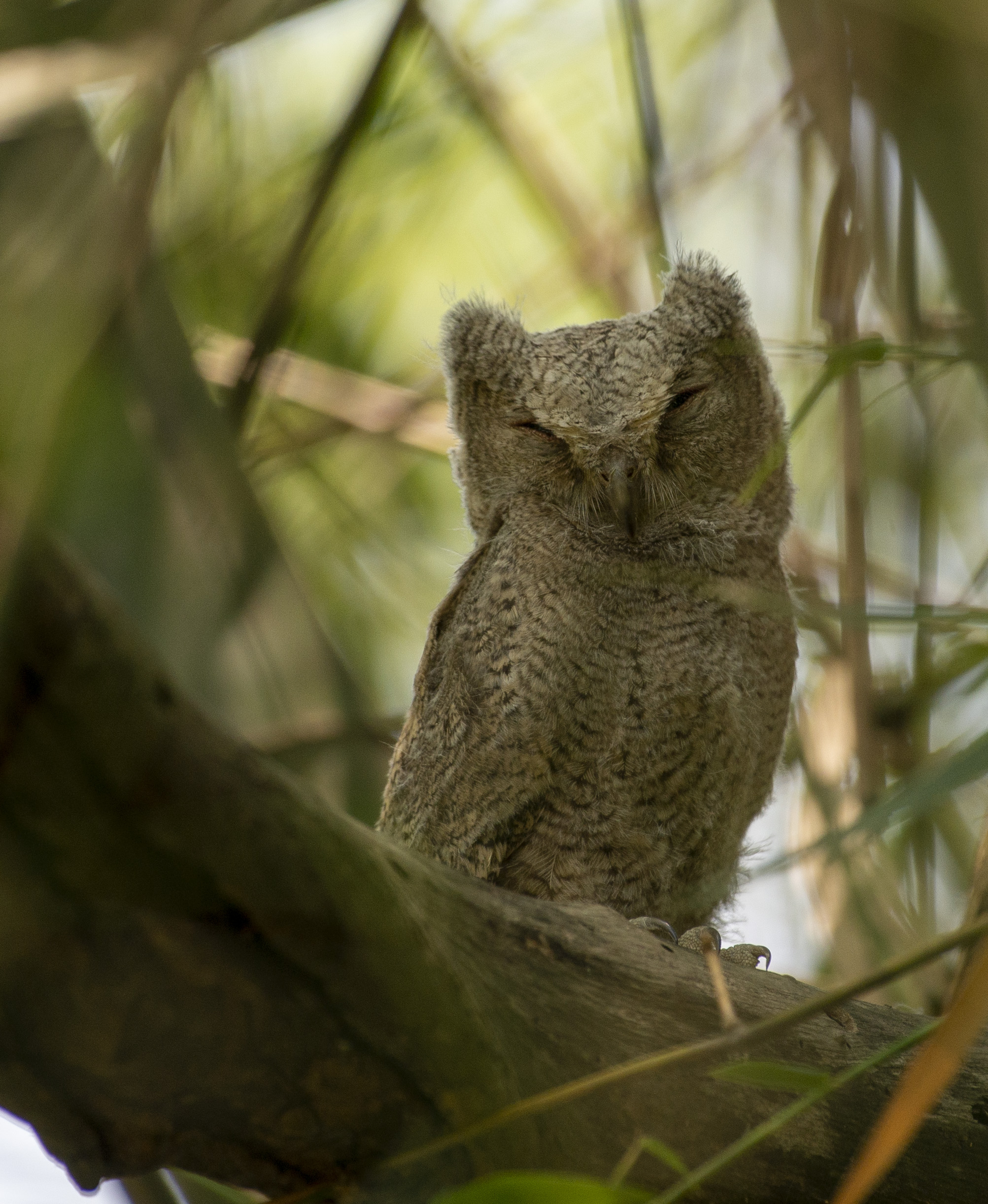 The collared scops owl (Otus lettia), Young Birds